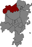 Location of Odèn in Solsonès